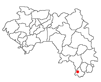 Yomou, Guinea Location Map; created with the GIMP. Made by User:Acntx.